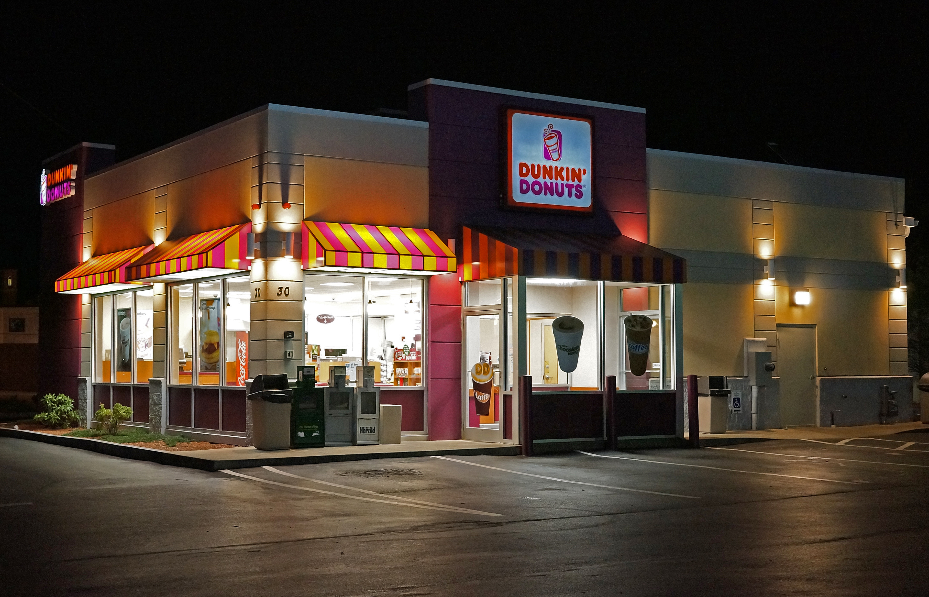 Dunkin Donuts restaurant, Revere, Massachusetts USA. Night view.